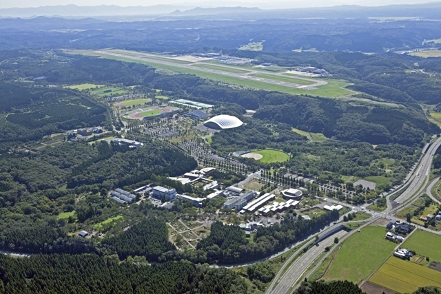 Aerial View of campus and Akita's airport